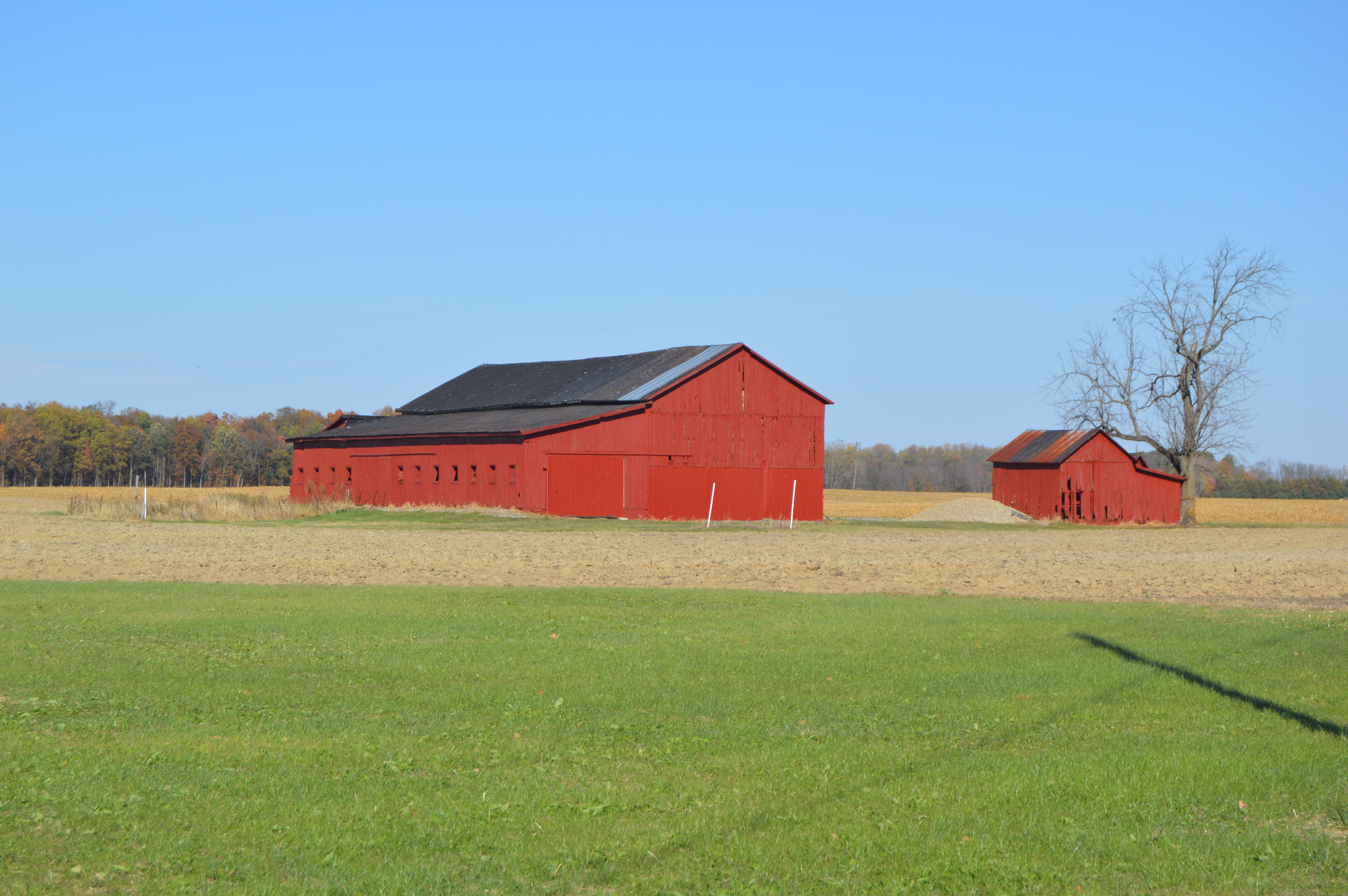 Barns on the northern side of State Route 96 just east of the State Route 602 intersection in Sandusky Township, Crawford County, Ohio, United States.